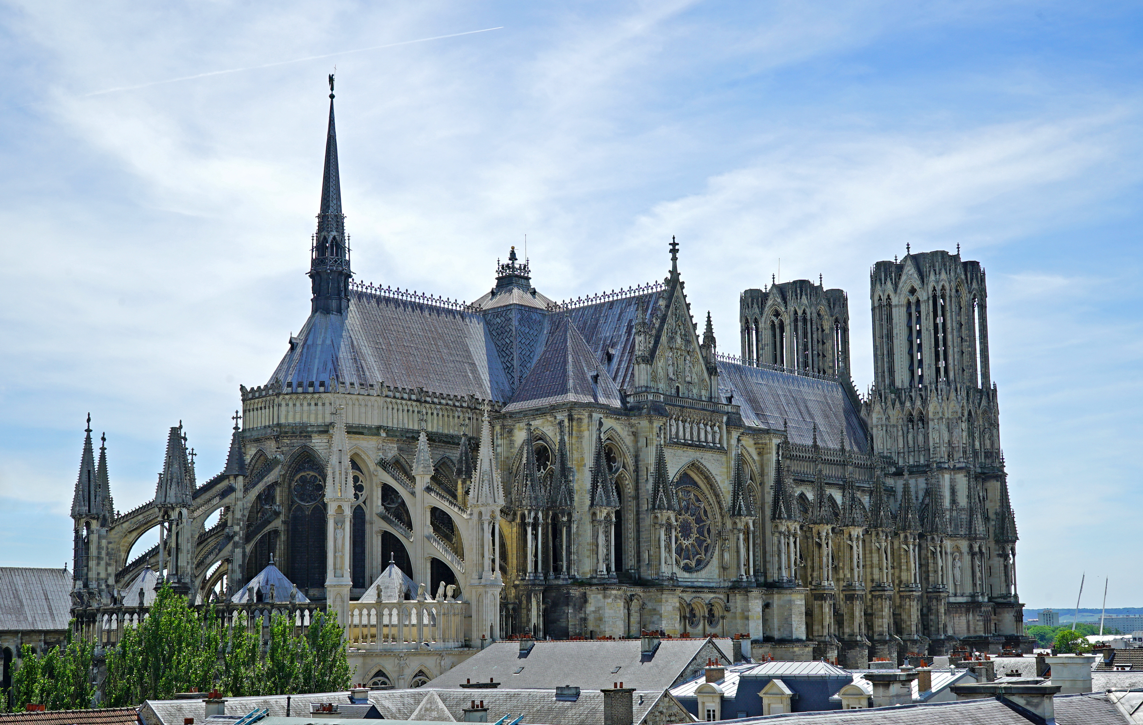 View from north-east of Reims Cathedral (High Gothic)